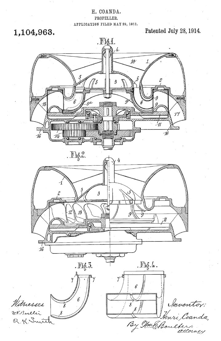 Sketch of Henri Coanda's turbine-style propeller that he filed for patent in 1911. This sketch is taken from the US patent granted in 1914. An identical sketch was filed in the UK May 26, 1911.